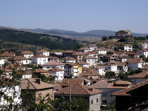 A part of village Ablanitsa, Blagoevgrad District, Bulgaria